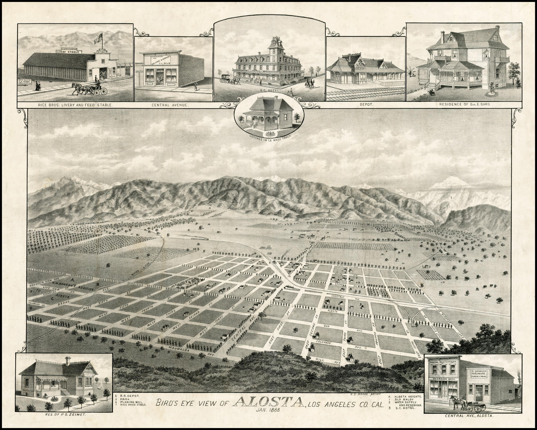 Early bird's eye view of Alosta (Glendora), California from the south. The view shows the town less than 8 months after the founding of Glendora, in April 1887. The view extends from Maunaloa Avenue in the foreground to Mountain View in the west, East Seventh Street in the east and Olive Avenue in the North. The center of town is Central Avenue. This plan grid can still be seen today. Mauna Loa Avenue, Walnut Avenue and Colorado Avenue still appear on the map. Alosta Avenue or Chestnut are now Route 66. Central Avenue would appear to be Glendora Avenue. The primary image is a view from Alosta Heights looking over the town, with the railroad at the left, fruit orchards in distance and the San Gabriel Mountains beyond. The view includes inset views of the Rice Brothers Livery and Feed Stable, 2 different views of buildings on Central Avenue, S.C. (Southern California?) Hotel, a Cottage in the Le Mars Tract, the Railroad Depot, and the Residences of George E. Gard and P.O. Zeimet.